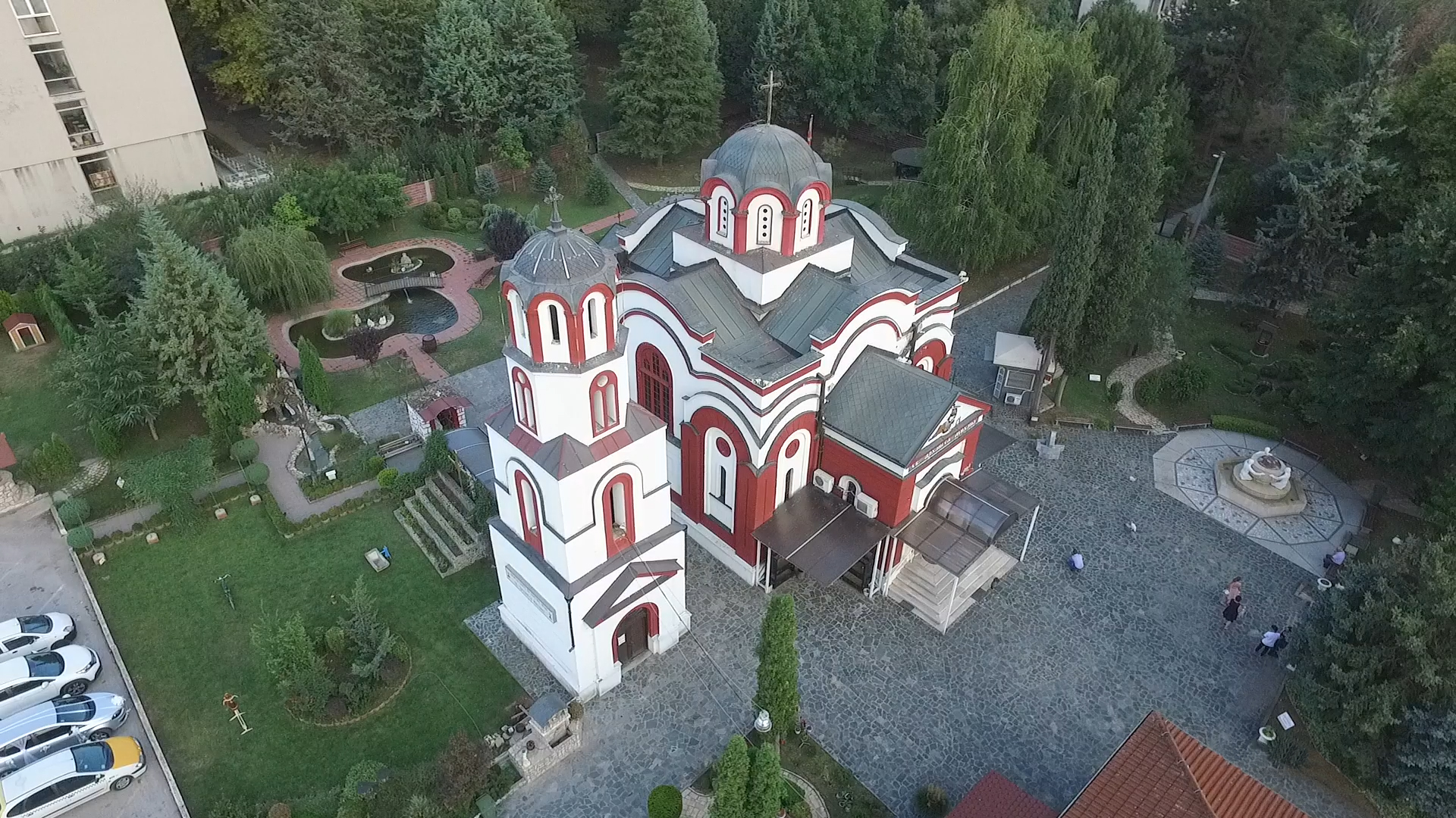 Church of the Archangel Michael - Avtokomanda - Skopje